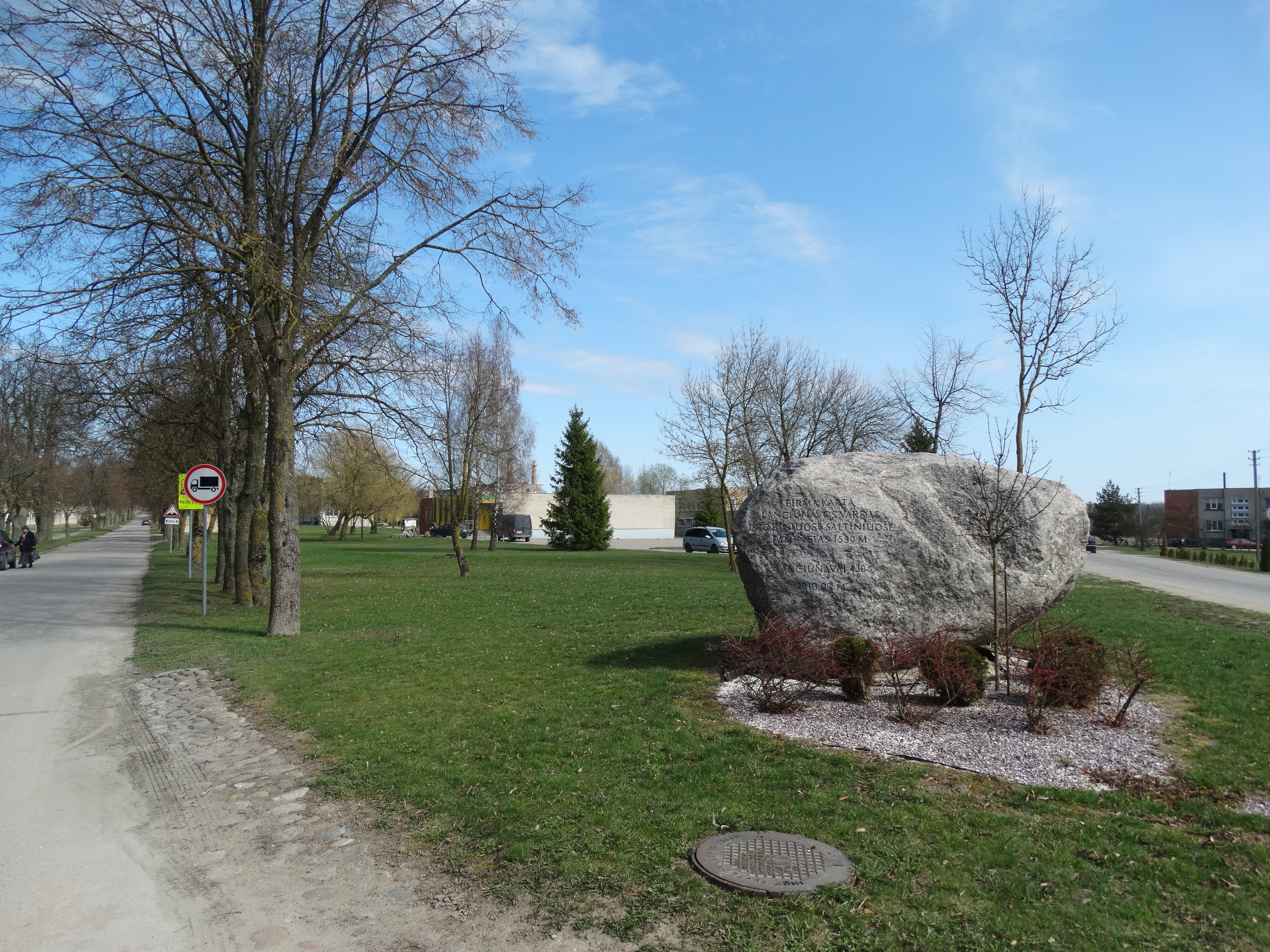 Stone, Lančiūnava, Kėdainiai District, Lithuania